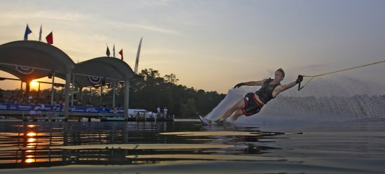 A beautiful shot of Andy Mapple taken during his last U.S. Master